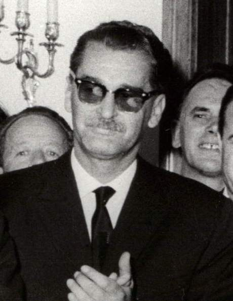 National hero of Yugoslavia Српски (ћирилица): Народни херој Југославије